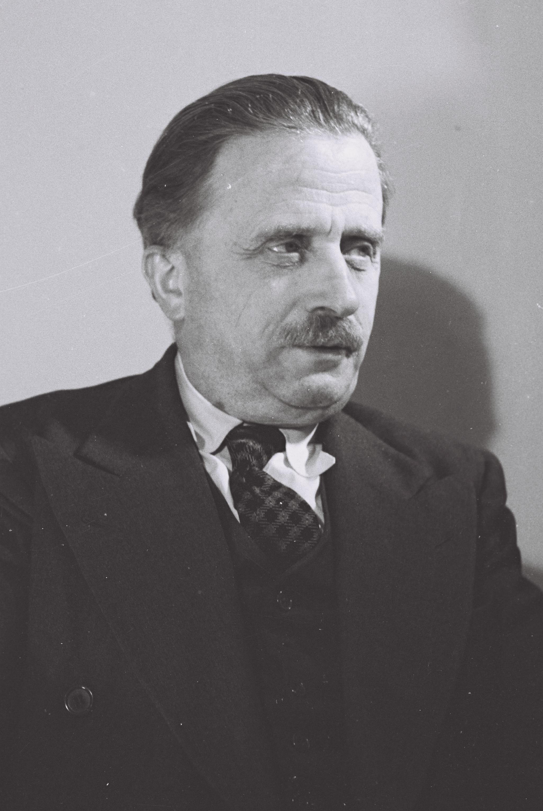 Portrait, Berl Locker, chairman of Jewish Agency and Member of the Knesset.